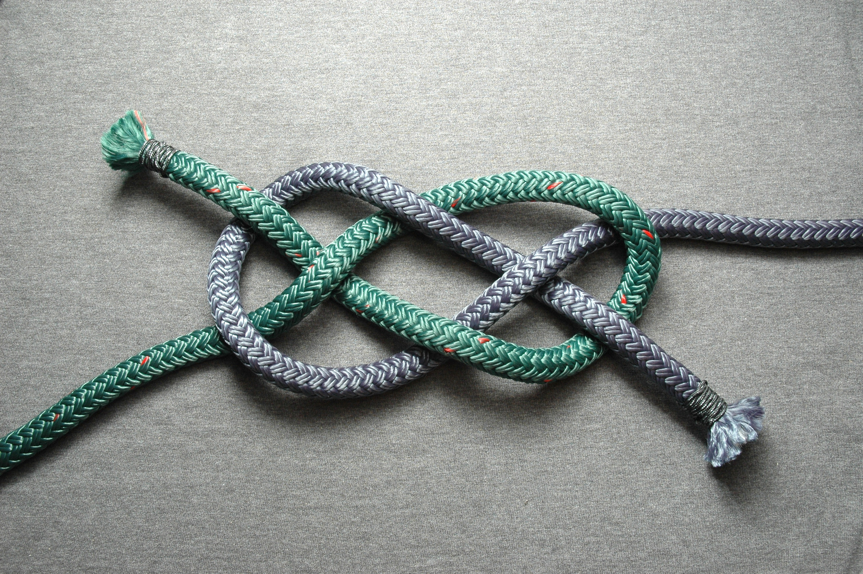 The Diamond knot (or Knife lanyard knot #787) begins with a Carrick bend (ABOK #1439) as shown in this image.